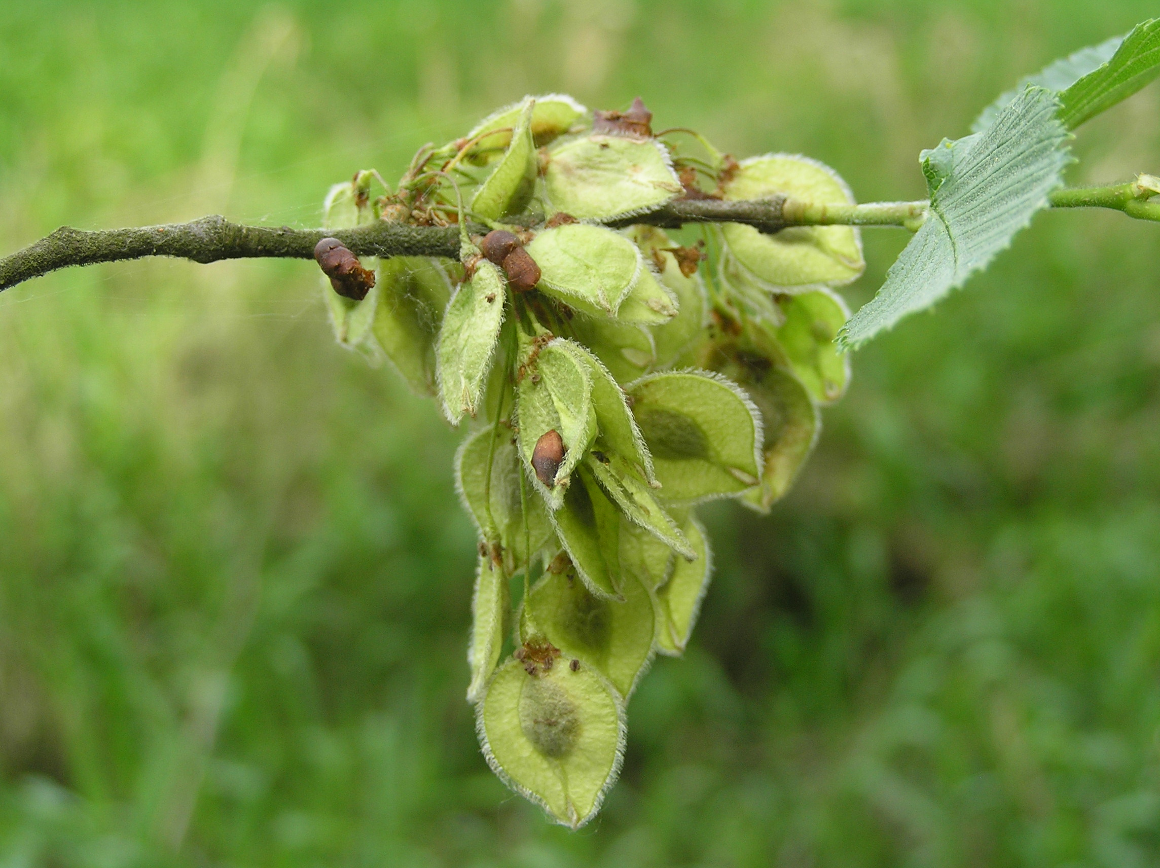 Ulmus laevis, Lanžhot, Southern Moravia, Czech Republic